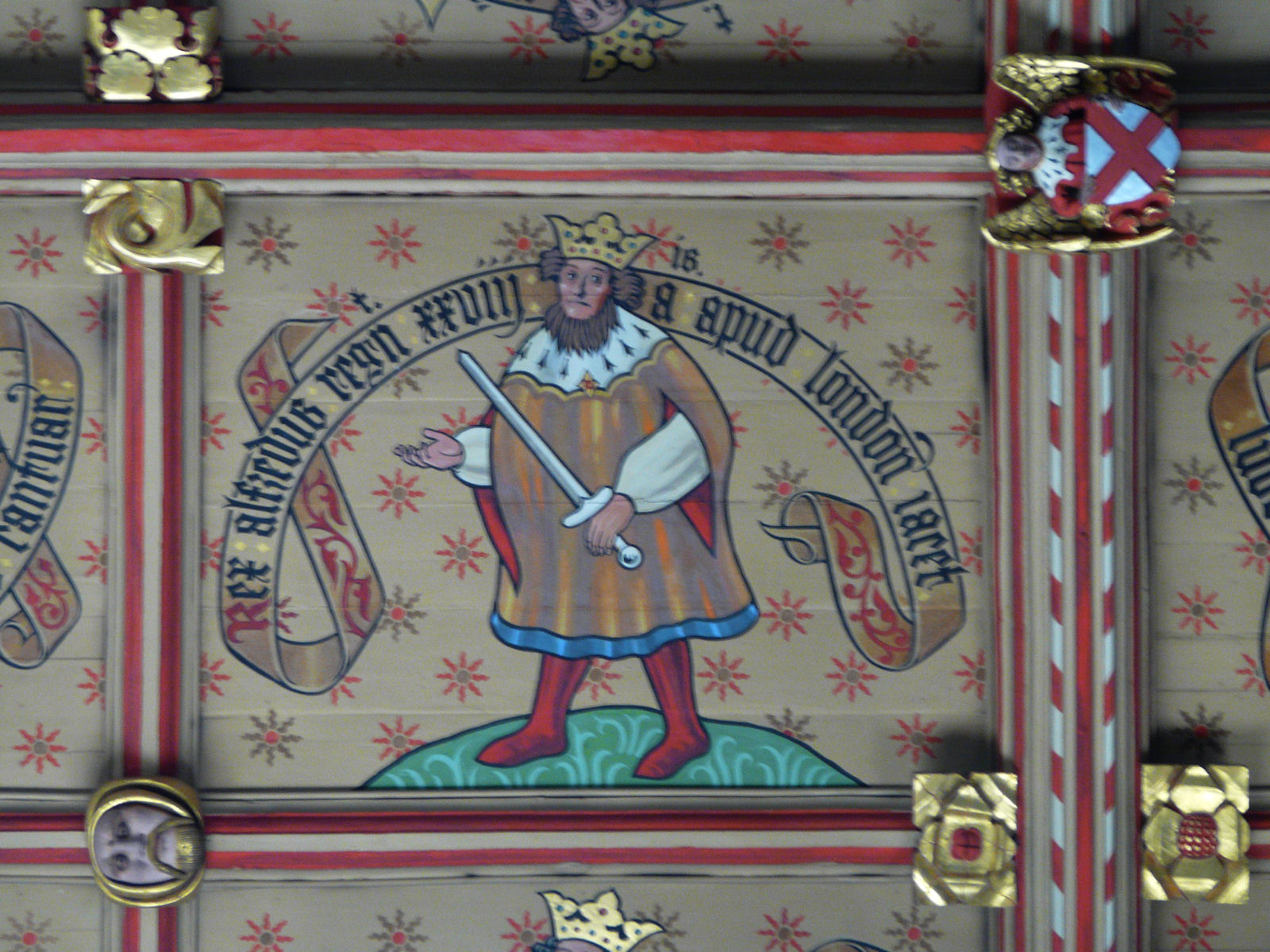 King Alfred of England on the painted vault over the choir area in St. Mary's Church, Beverley, East Riding of Yorkshire, England. The Latin inscription reads: Rex Alfredus, reg'nt XXVIII ais, apud London iacet